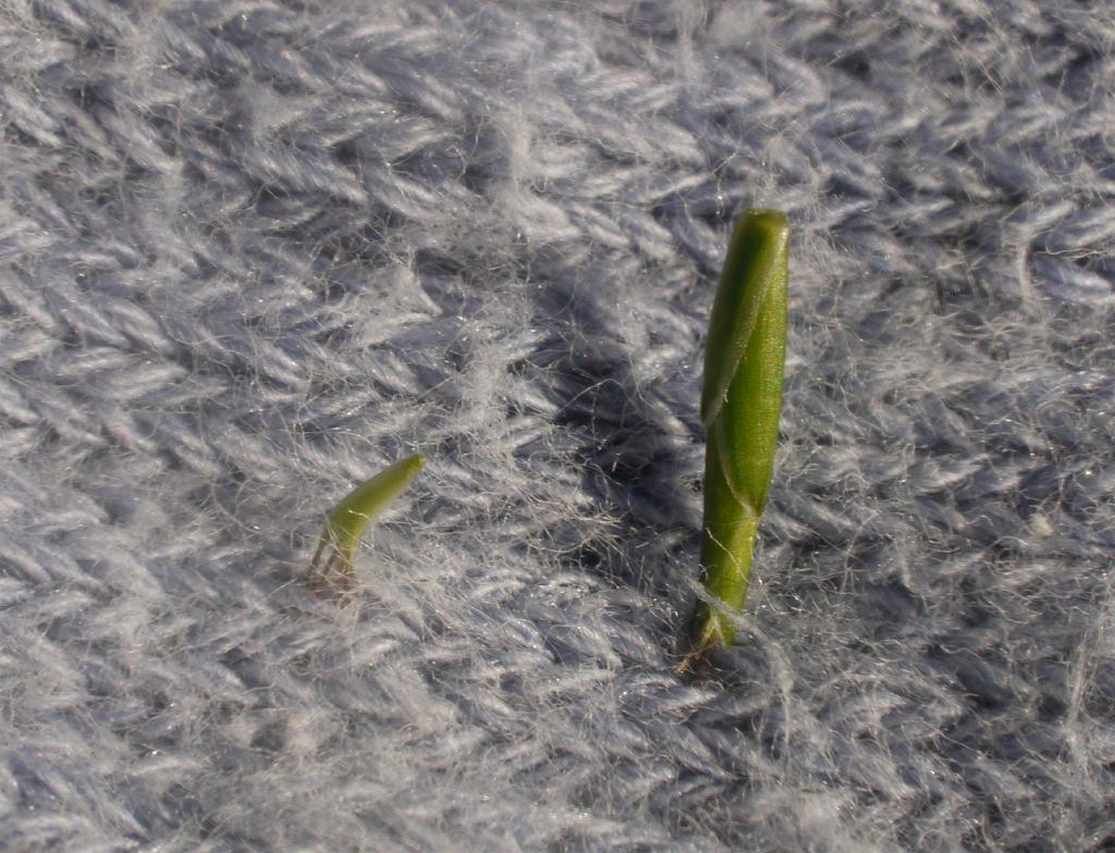 Lophatherum gracile (Poaceae)